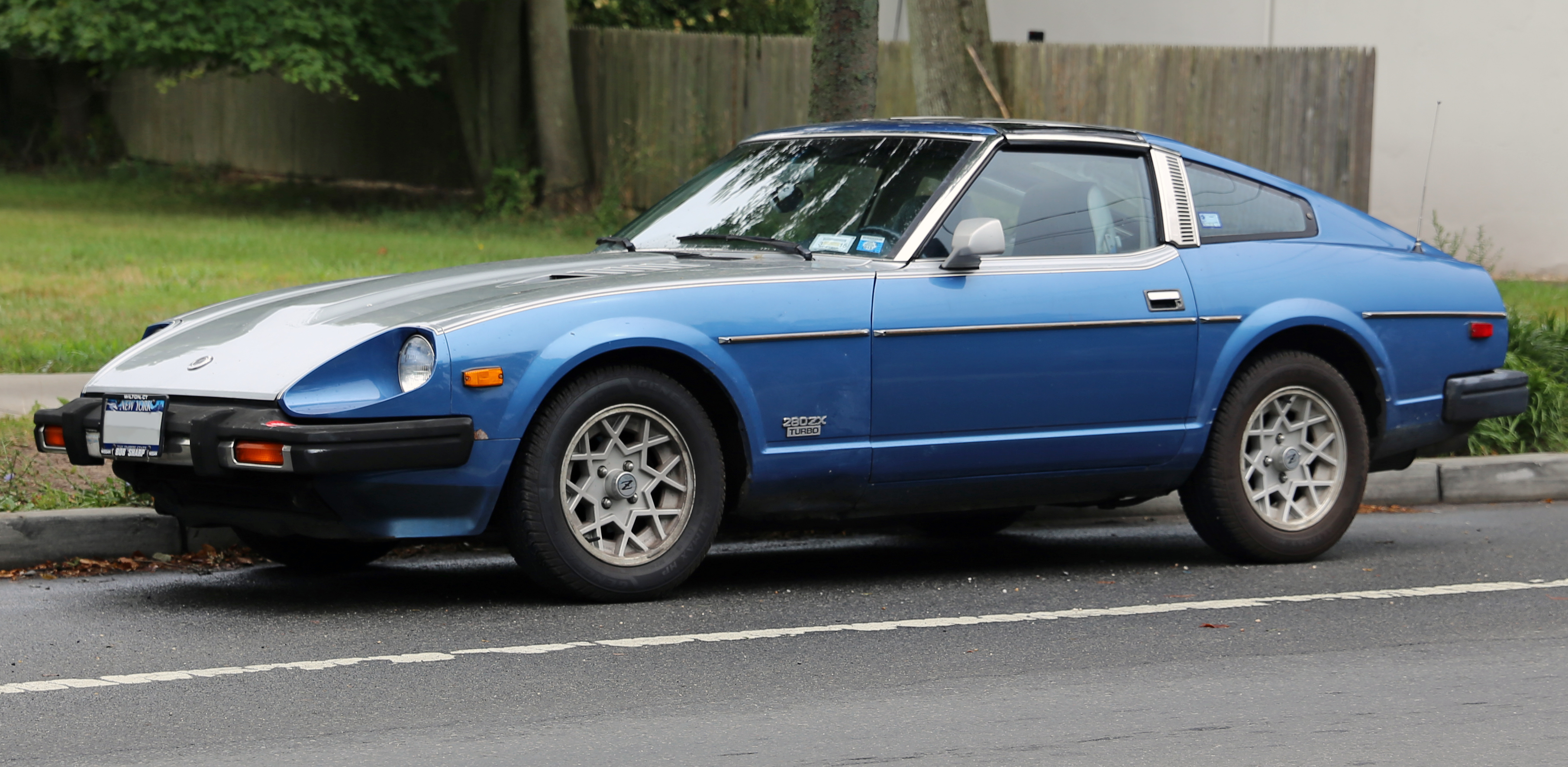 Datsun 280ZX Turbo in East Hampton, NY.